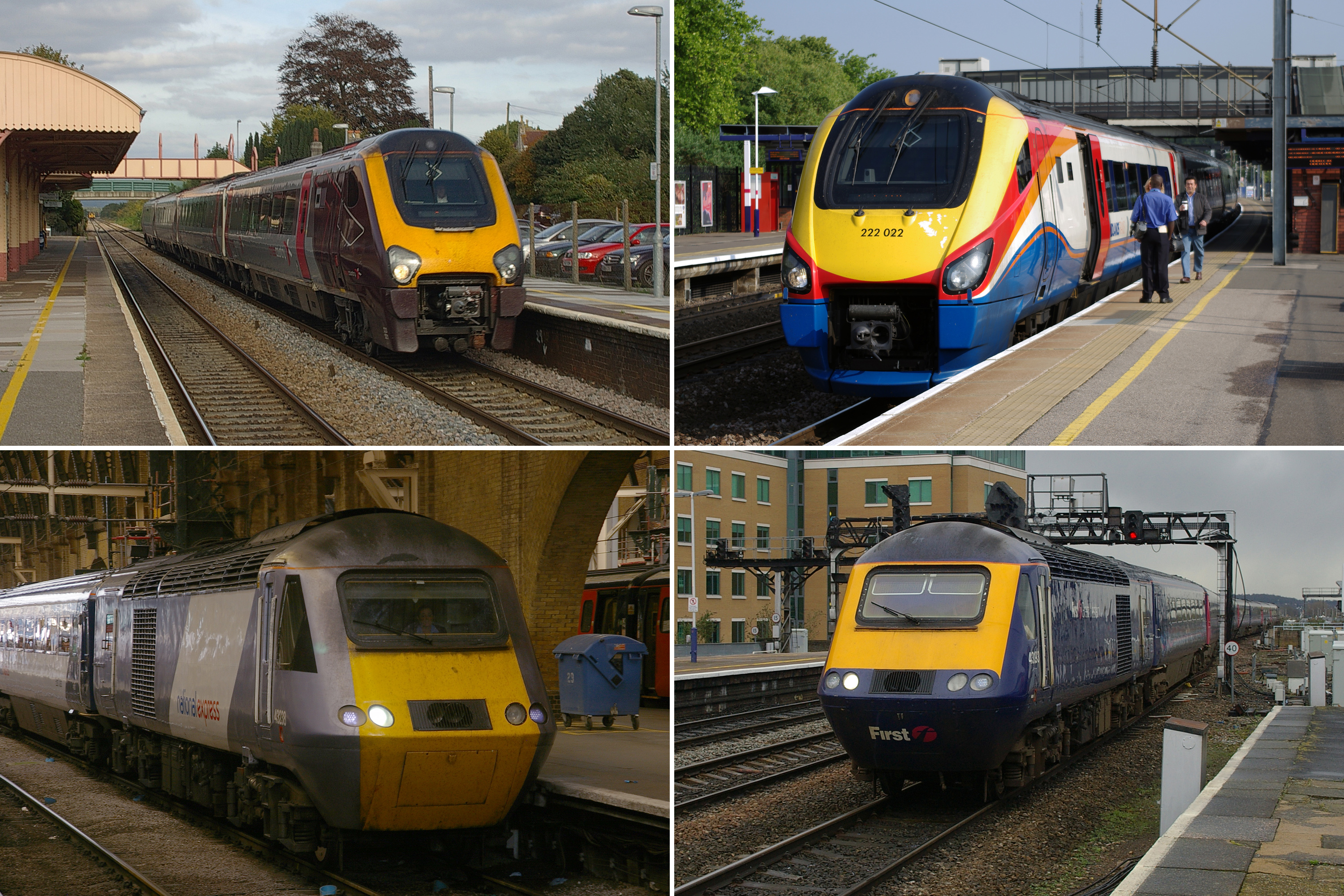 Collage of four train images, to represent the different companies bidding to become the new holder of the Greater Western passenger franchise from 2013. Clockwise from top left: Representing Deutsche Bahn, CrossCountry Class 220 Voyager diesel-electric multiple unit 220021 speeds through Yatton, 17 September 2009, 16:54. Representing the Stagecoach Group, East Midlands Trains Class 222 Meridian diesel-electric multiple unit 222022 stands at Bedford, 11 June 2011, 08:18. Representing First Group, First Great Western Class 43 locomotive 43193 leads an HST into Reading, 1 April 2010, 15:41. Representing National Express, National Express East Coast Class 43 locomotive 43238 arrives at King's Cross, 31 July 2009, 14:05.